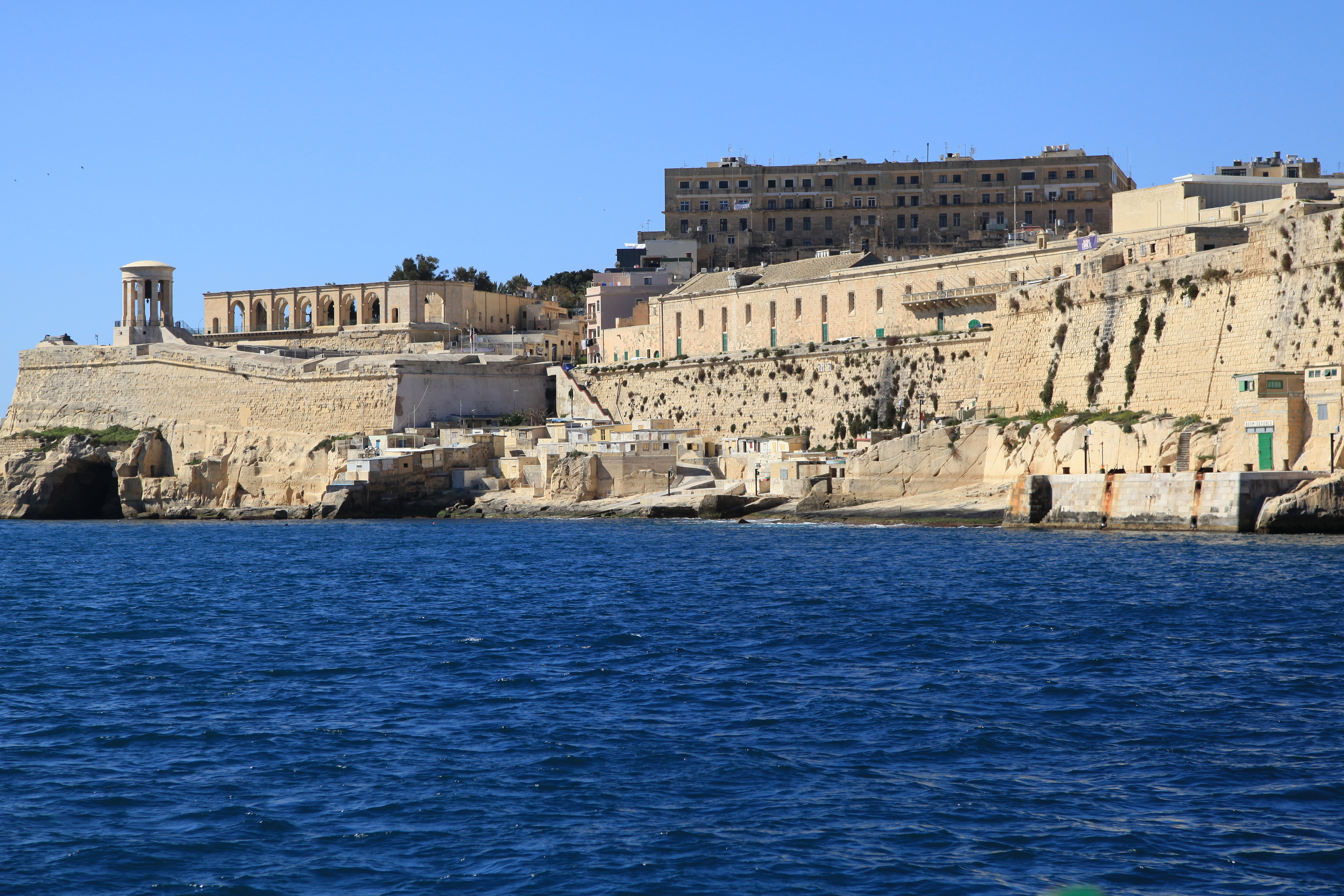 View from a Malta sightseeing two harbours cruise boat to Triq il-Mediterran, Triq il-Lanċa, Lower Barrakka Gardens, and Siege Bell War memorial in Valletta, Malta